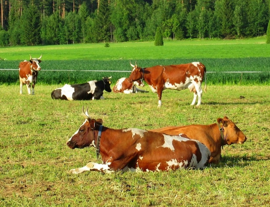 Small farmer’s dairy cattle in Southern Finland